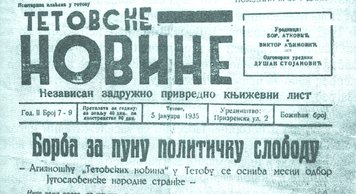 Tetovske Novine